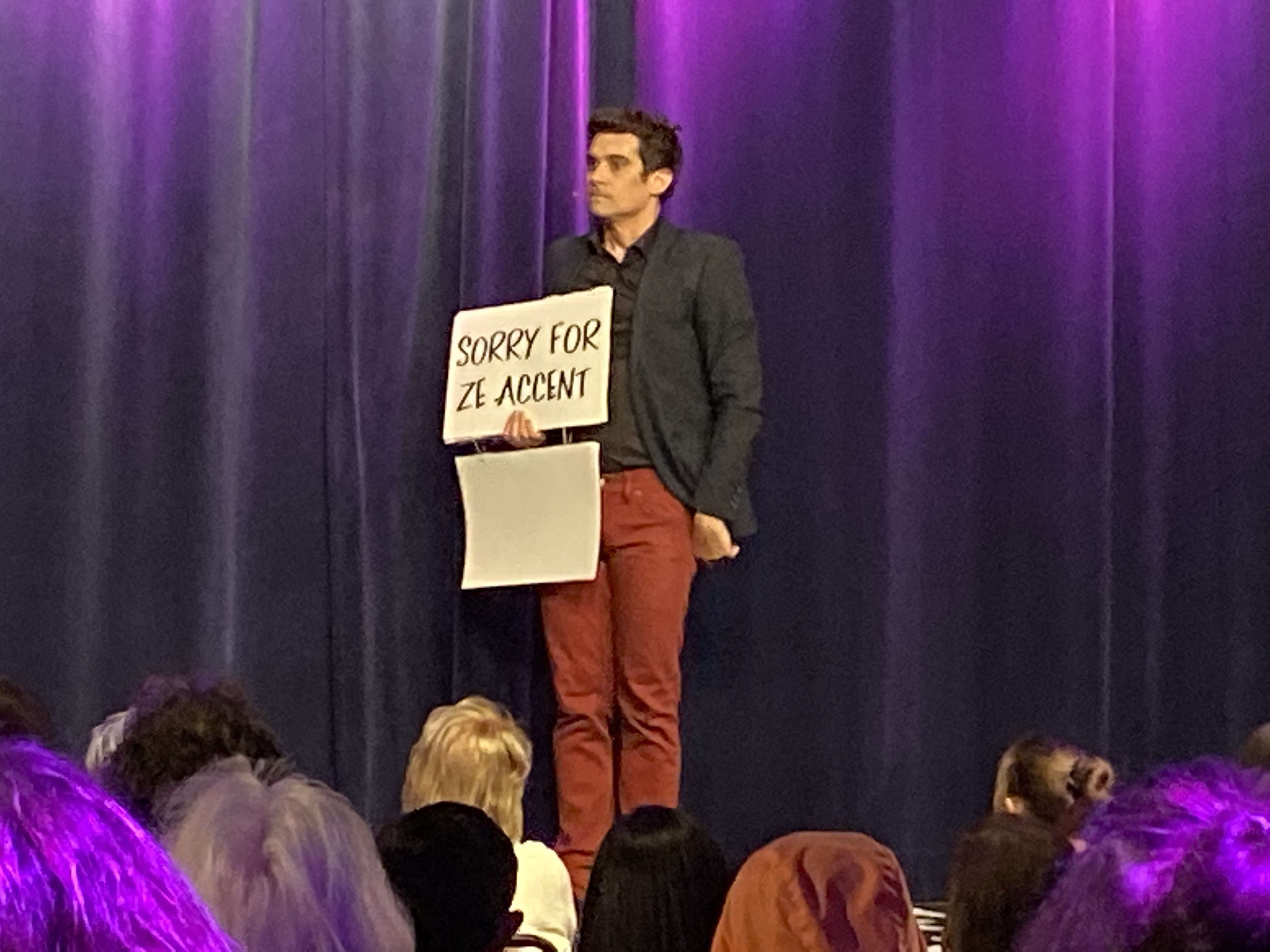 Xavier Mortimer performing a silent routine in his show 'Magical Dream' at Bally's Las Vegas.